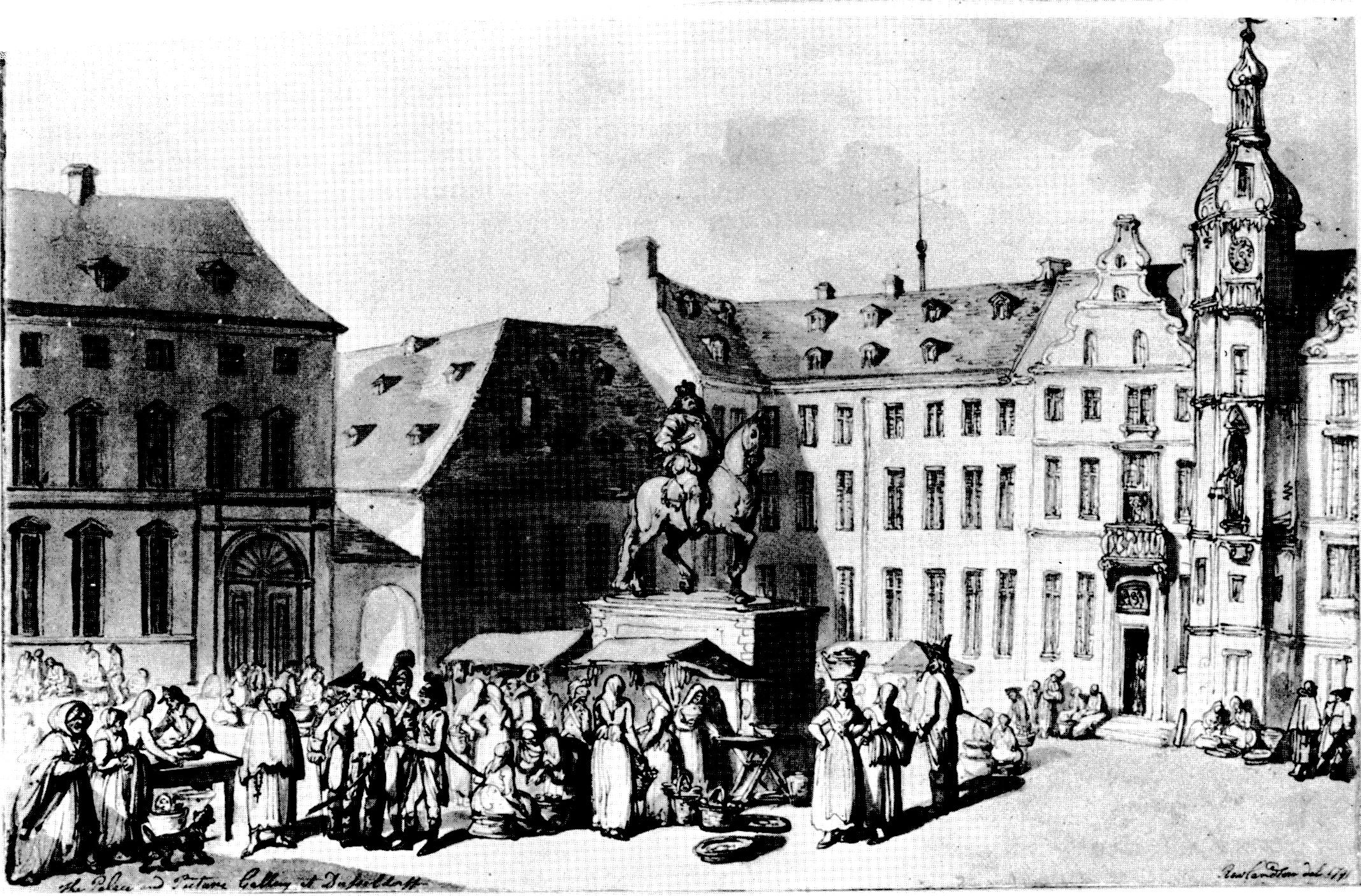 t